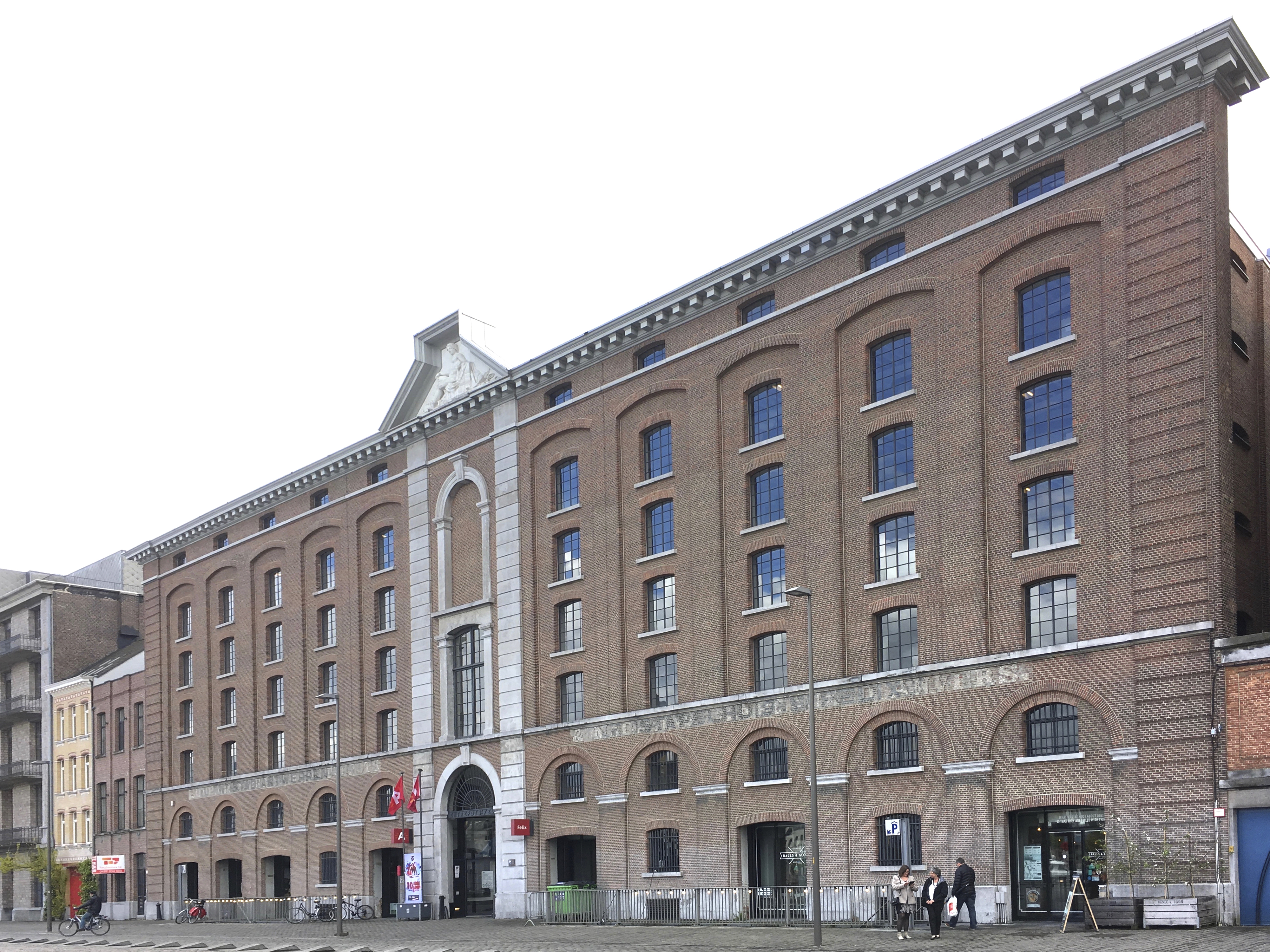 Exterior of the Felixpakhuis in Antwerp, which houses - among other things - Antwerp's city archives.